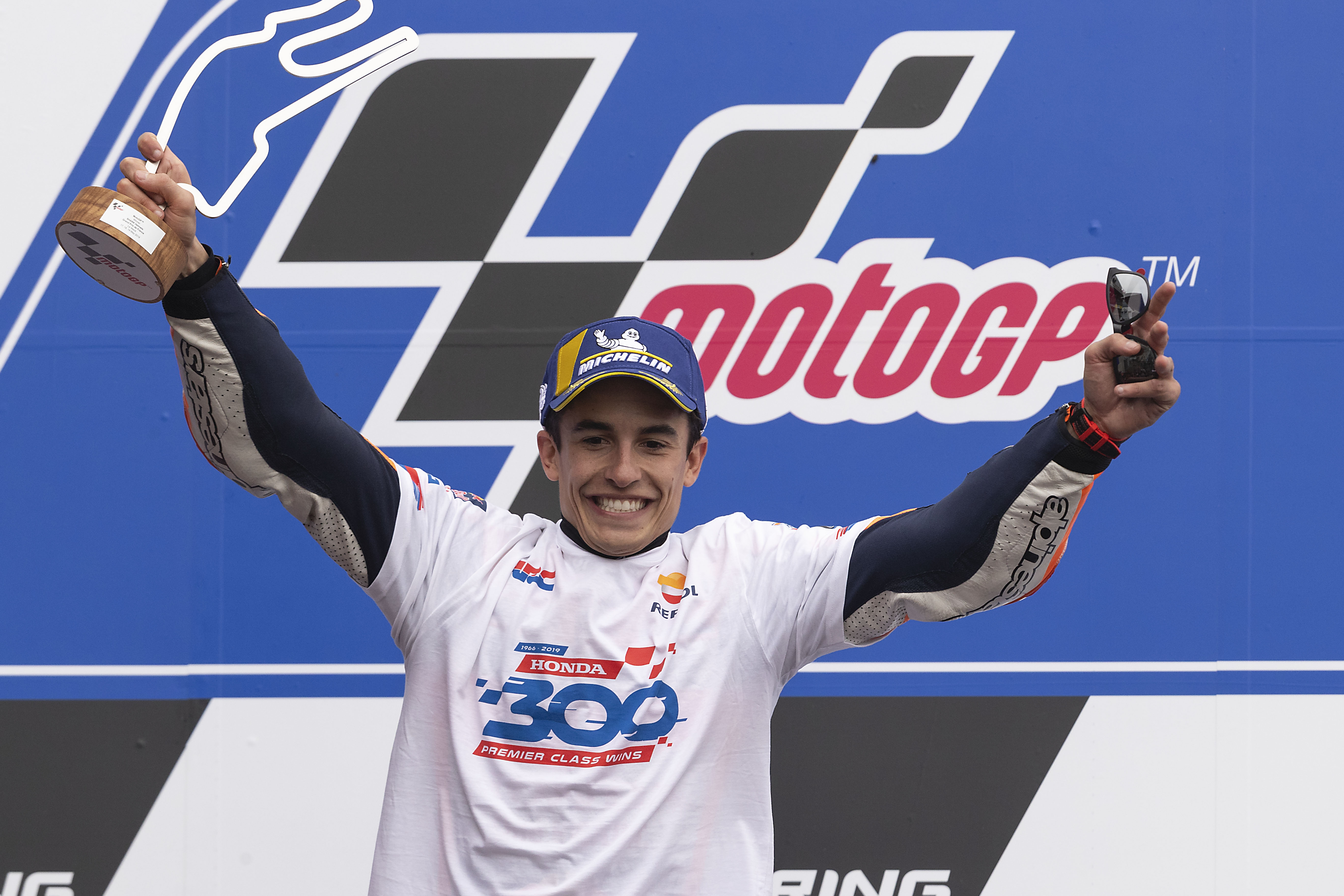 Marc Márquez, holding his trophy and celebrating on the podium after winning the 2019 French Grand Prix. He also wears a shirt, celebrating the 300 premier class wins the Factory Honda team has archieved since 1966.